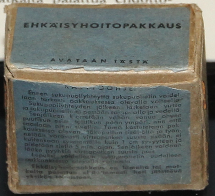 Contraceptive (spermicide?) provided by Finnish military to soldiers going on leave during World War 2.